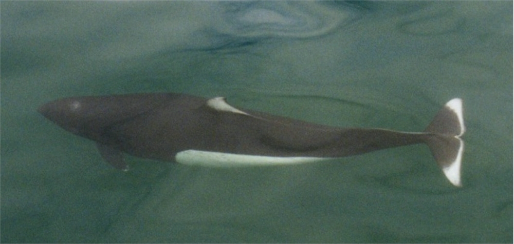 Dall's Porpoise in Alaska. The image is a scan of an old print. The image was taken by Brocken Inaglory in June, 1998